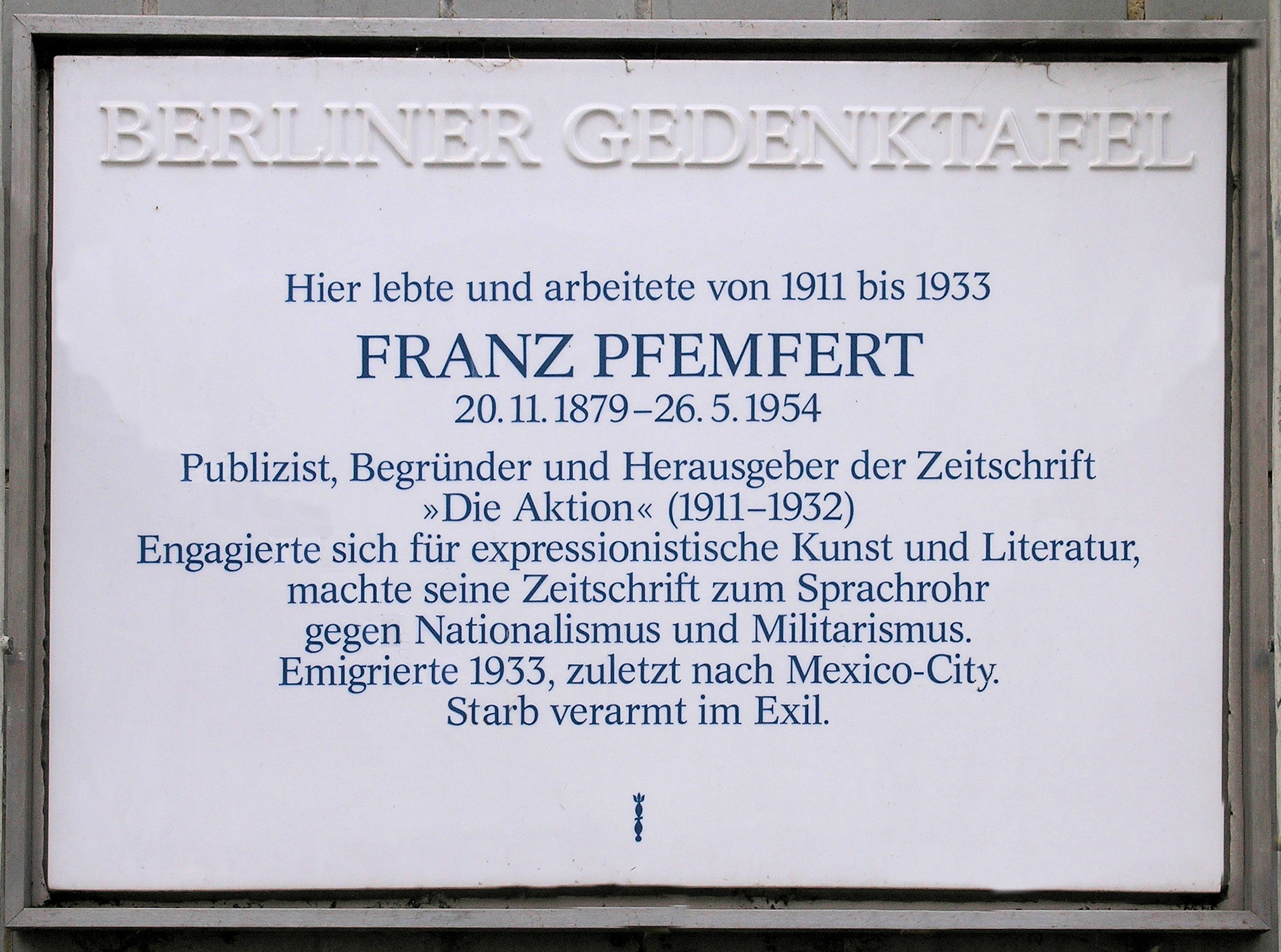 Berlin memorial plaque, Franz Pfemfert, Nassauische Straße 17, Berlin-Wilmersdorf, Germany Koordinate:52°29′27.1″N 13°19′35.2″E / 52.490861°N 13.326444°E